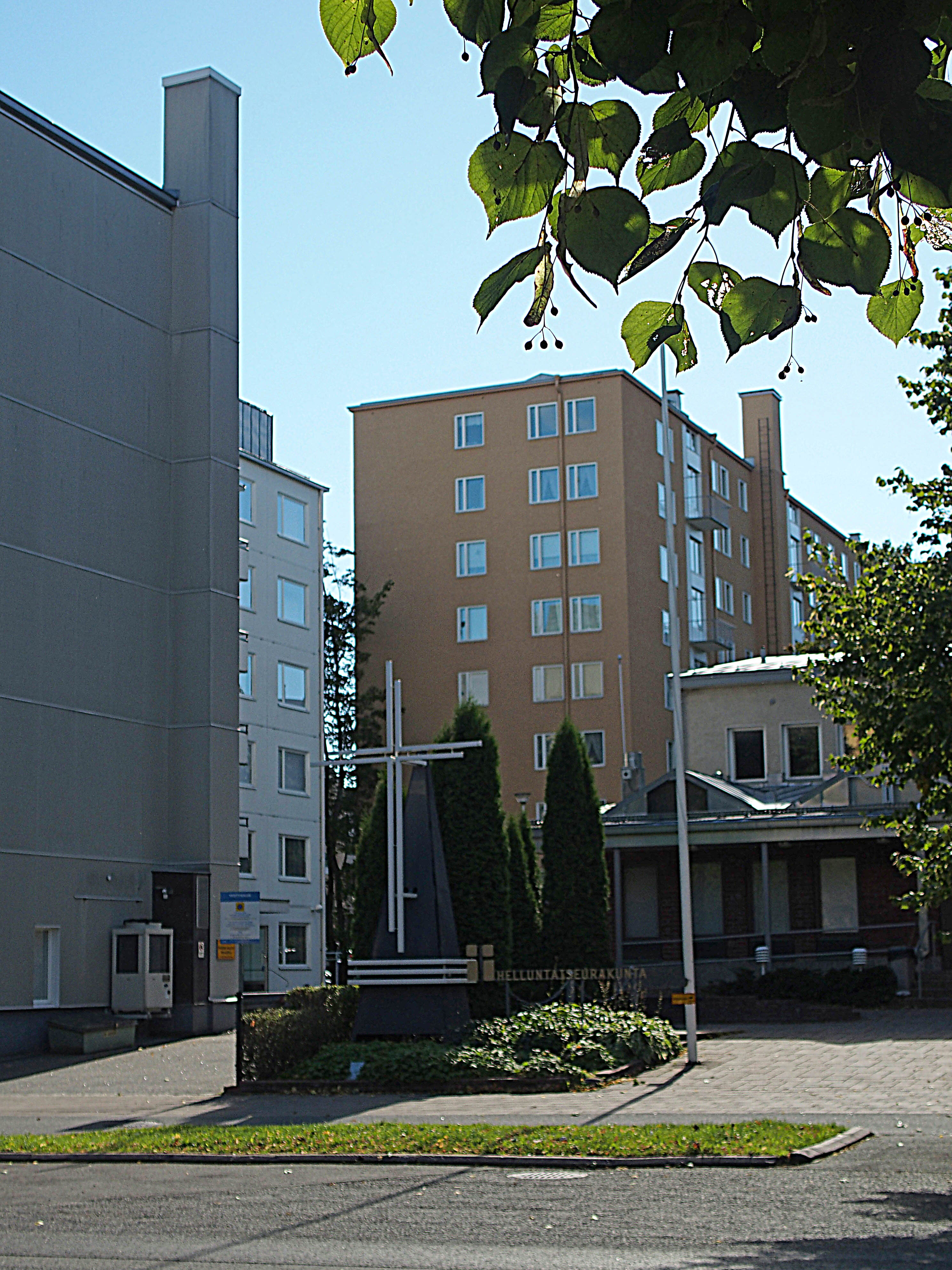 Helluntaiseurakunta Turku Puistokatu